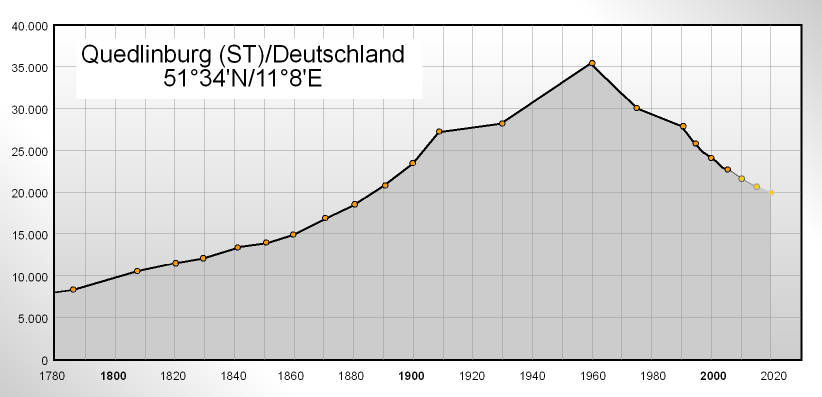 This image shows the population statistics of Quedlinburg (Germany).